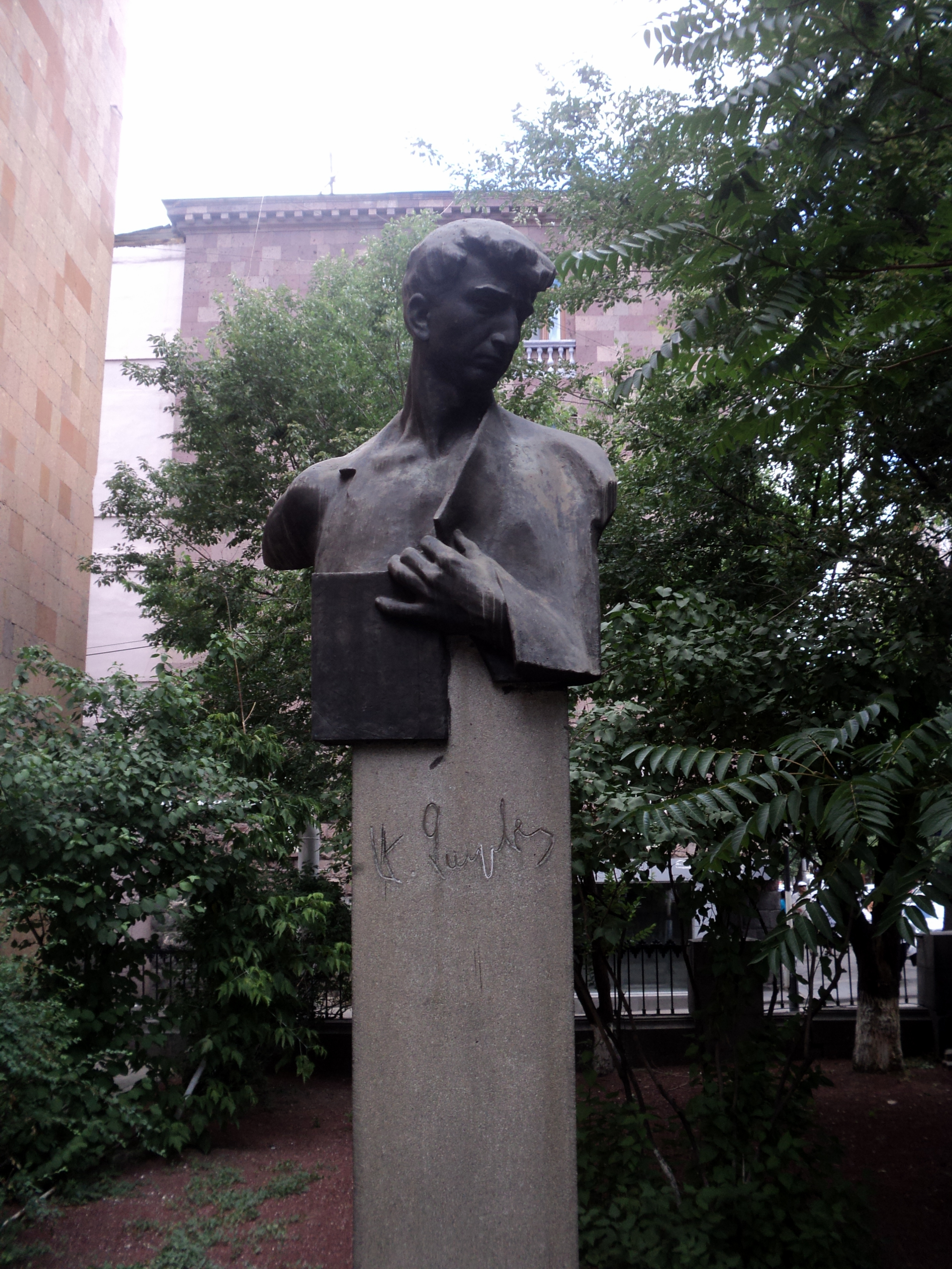 Yeghishe Charents monument, Yerevan 6/71.1